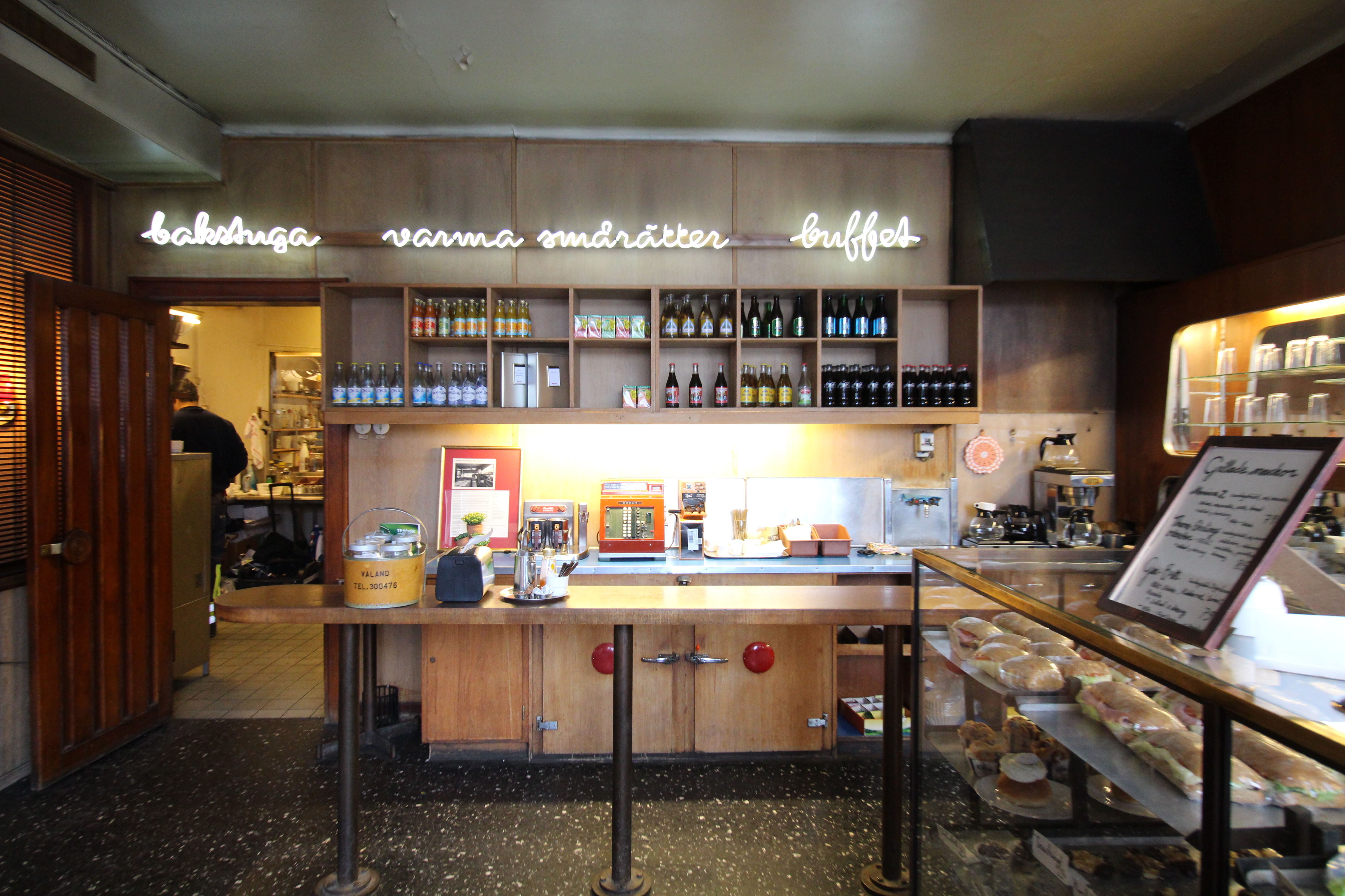 Café Valand, Surbrunnsgatan 48, Stockholm, Sweden